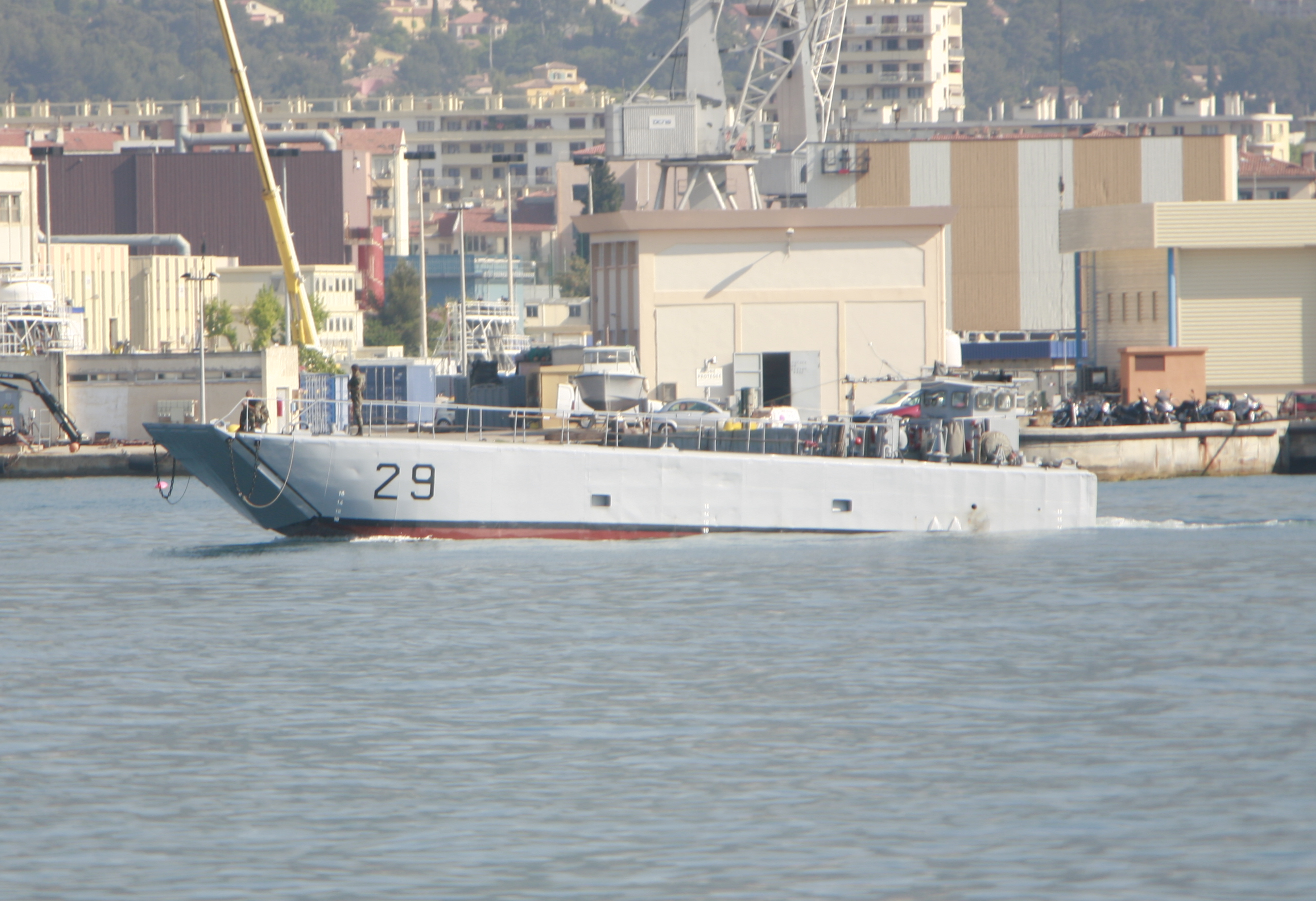 French LCM in Toulon harbor